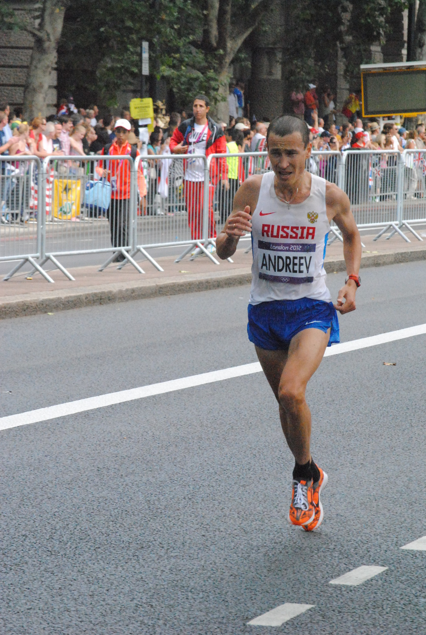 The men's marathon of the 2012 Summer Olympics in London, UK took place on an Olympic marathon street course on Sunday 12th August 2012 at 11:00. This was the final day of the 30th Olympic Games. The London 2012 marathon course is the standard Olympic distance of 26 miles 385 yards and consists of one short lap of approx 2.2 miles followed by three longer laps of 8 miles. The course began on The Mall and travelled past several of the most famous London landmarks. The start/finish line was near the Victoria Memorial. These photographs were taken at the Victoria Embankment. This featured several times on the looped course. The approximate location from the photographs is shown in the Google StreetView Link below. Stephen Kiprotich won in 2 hours, 8 minutes, 1 second as he pulled away from the Kenyan duo of Abel Kirui and Wilson Kiprotich Kipsang. These photographs are unofficial photographs. They are not endorsed by London 2012. There are not commercially available. They are available for use under a Creative Commons License. Please link back to the photograph on my Flickr account if you use the image.